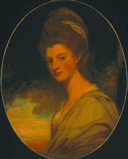 Portrait of Elizabeth, Countess of Craven, Later Margravine of Anspach